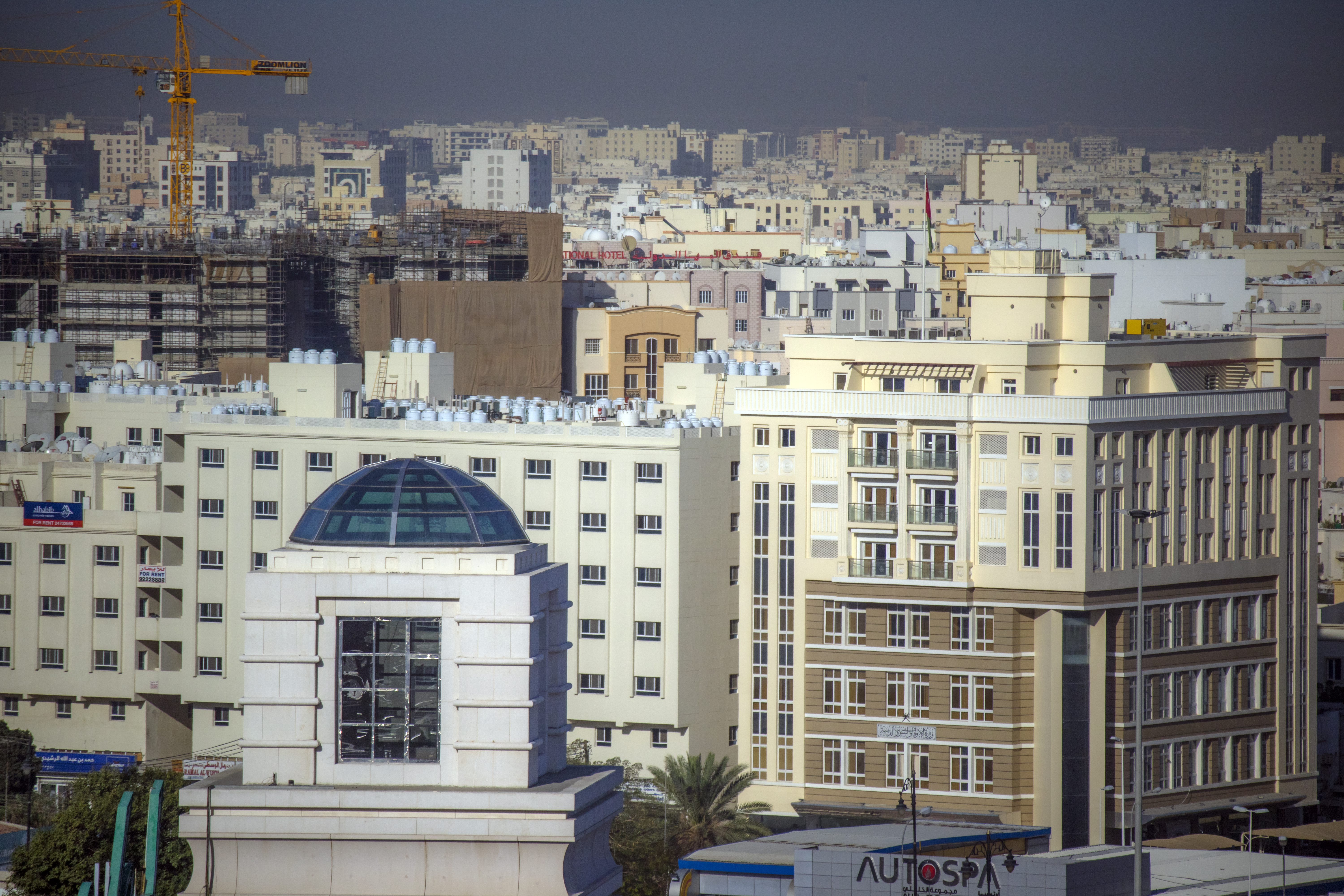 Muscat (Arabic: مسقط) is the capital and largest city of The Sultanate of Oman. It is the largest city in the mintaqah (governorate) of Muscat. The city of Muscat has a population of 650,000 (2005). The official language is Arabic.